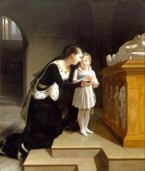 Joan of Navarre, dowager duchess of Brittany, and her son Arthur, future Arthur III of Britanny, near the tomb of her husband and his father, duke John V of Britanny.